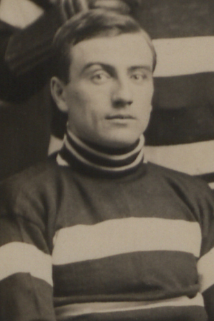 Ice hockey player Marty Walsh of the Ottawa Hockey Club in 1911.